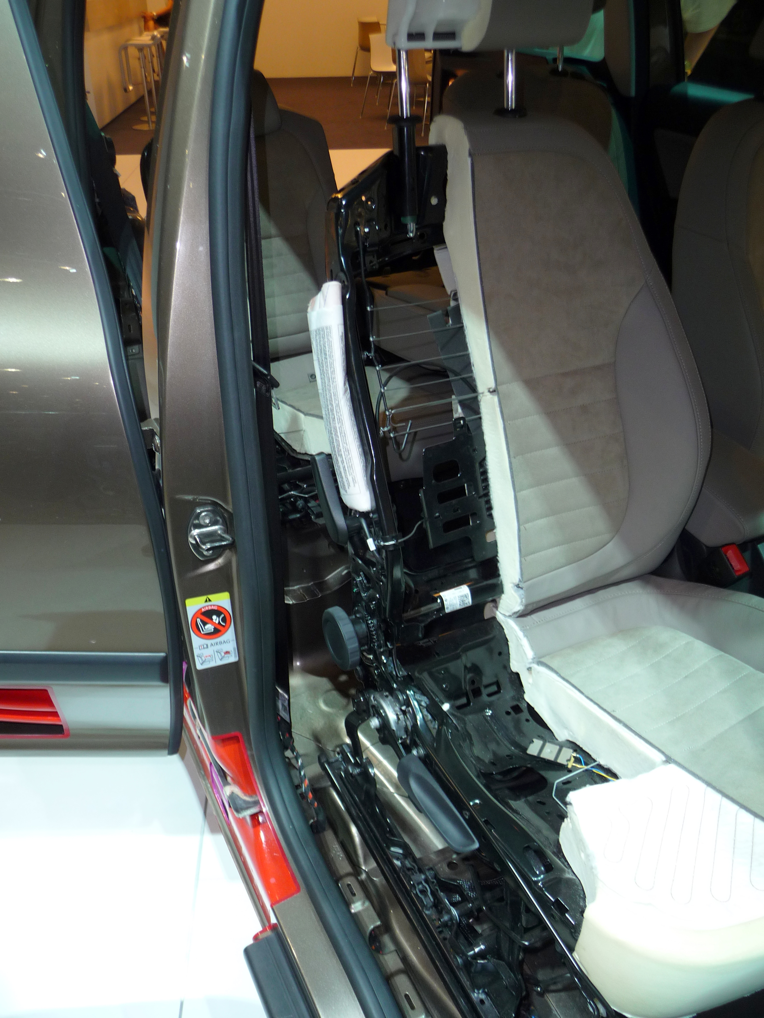 Cross section of Škoda Yeti, Autosalon Brno 2011, The Brno Exhibition Grounds -10 -5 -3 -2 ◄ ► +2 +3 +5 +10